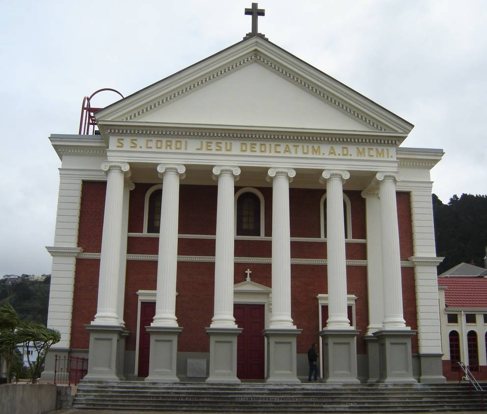 Cathedral of the Sacred Heart, Wellington, New Zealand. New Zealand Historic Places Trust Register number: 214.